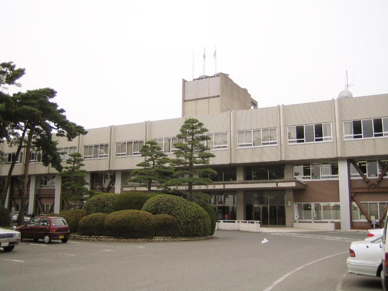 Toyokawa City Hall (豊川市役所), located at Suwa, Toyokawa, Aichi, Japan